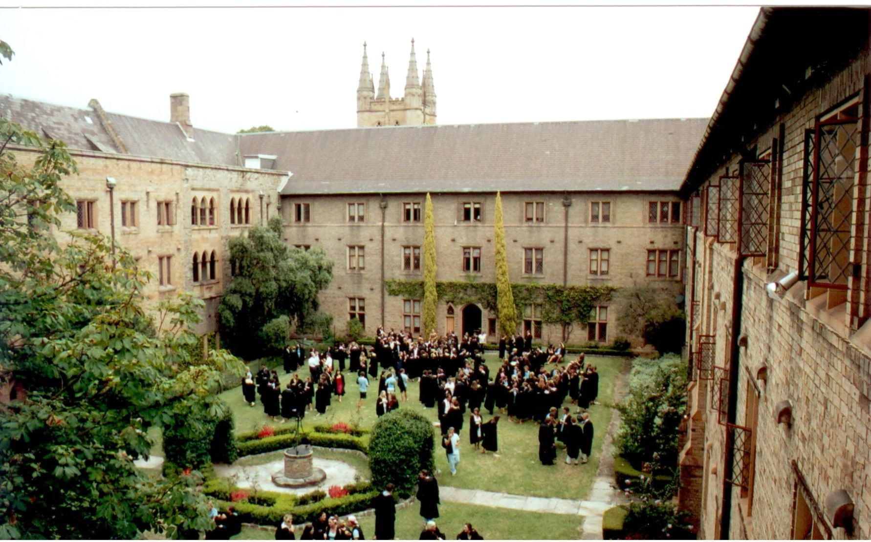 This is a photo of the Sancta Sophia College students in the Quad during O-Week 2007.